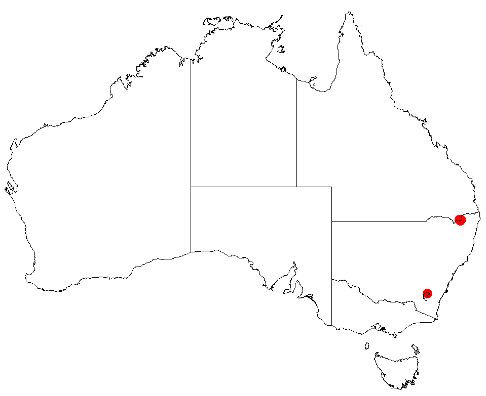 Homoranthus papillatus Occurrence data from AVH downloaded 28 September 2018